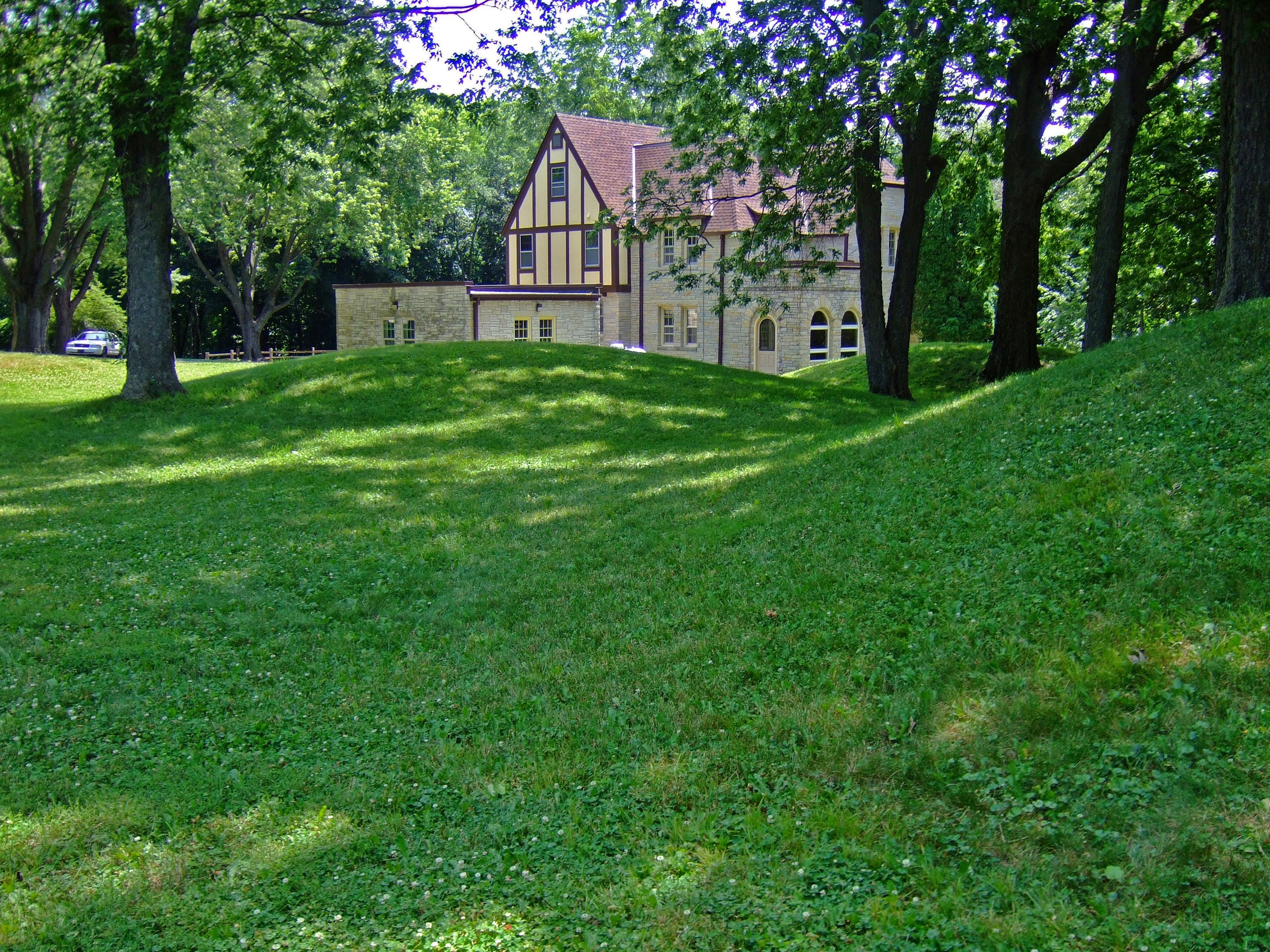 Located 70 feet above Lake Mendota on the westerly grounds of Mendota Mental Health Institute in Madison, Wisconsin, Farwell's Point Mound Group was added to the National Register of Historic Places in 1974. This cluster of mounds contains eleven conicals constructed during the Middle Woodland stage (ca. 100-500), one of which rises to a height of ten feet. Farwell's Point Mound Group also includes remnants of two panthers, one bird, three linears, and one undefined effigy that were built during the Late Woodland stage (ca. 650-1200). Several other effigy mounds in this group, including a bird and a bear, were destroyed during the construction of the hospital facilities. In the background of this photo is the Urben House, designed by Arthur Peabody and built in 1932. It is named for Walter J. Urben, the Superintendent of MMHI from 1948 to 1970.